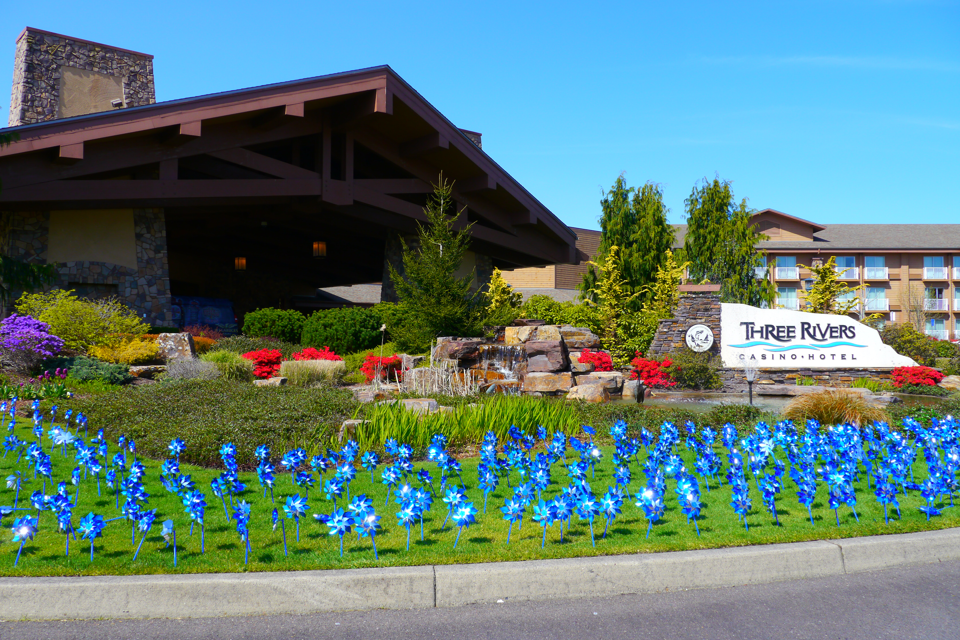 Three Rivers Casino is located off of Highway 126 near Florence, Oregon. The pinwheels are Child Abuse Prevention Month. (